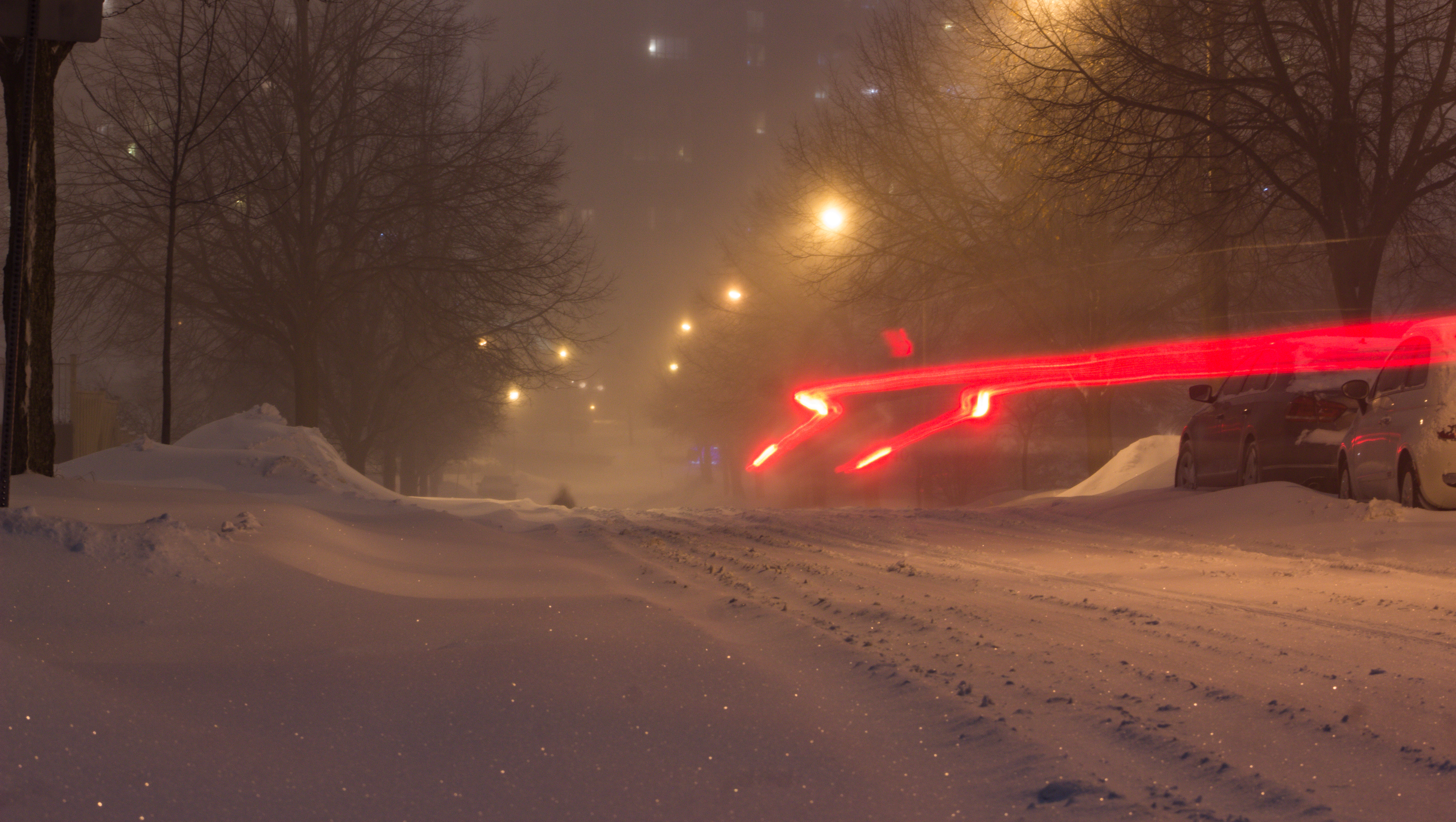 A residential street covered in snow during a snowstorm in Toronto at the end of January. There were relatively high winds and a fair amount of snow (with snow falling throughout the day).